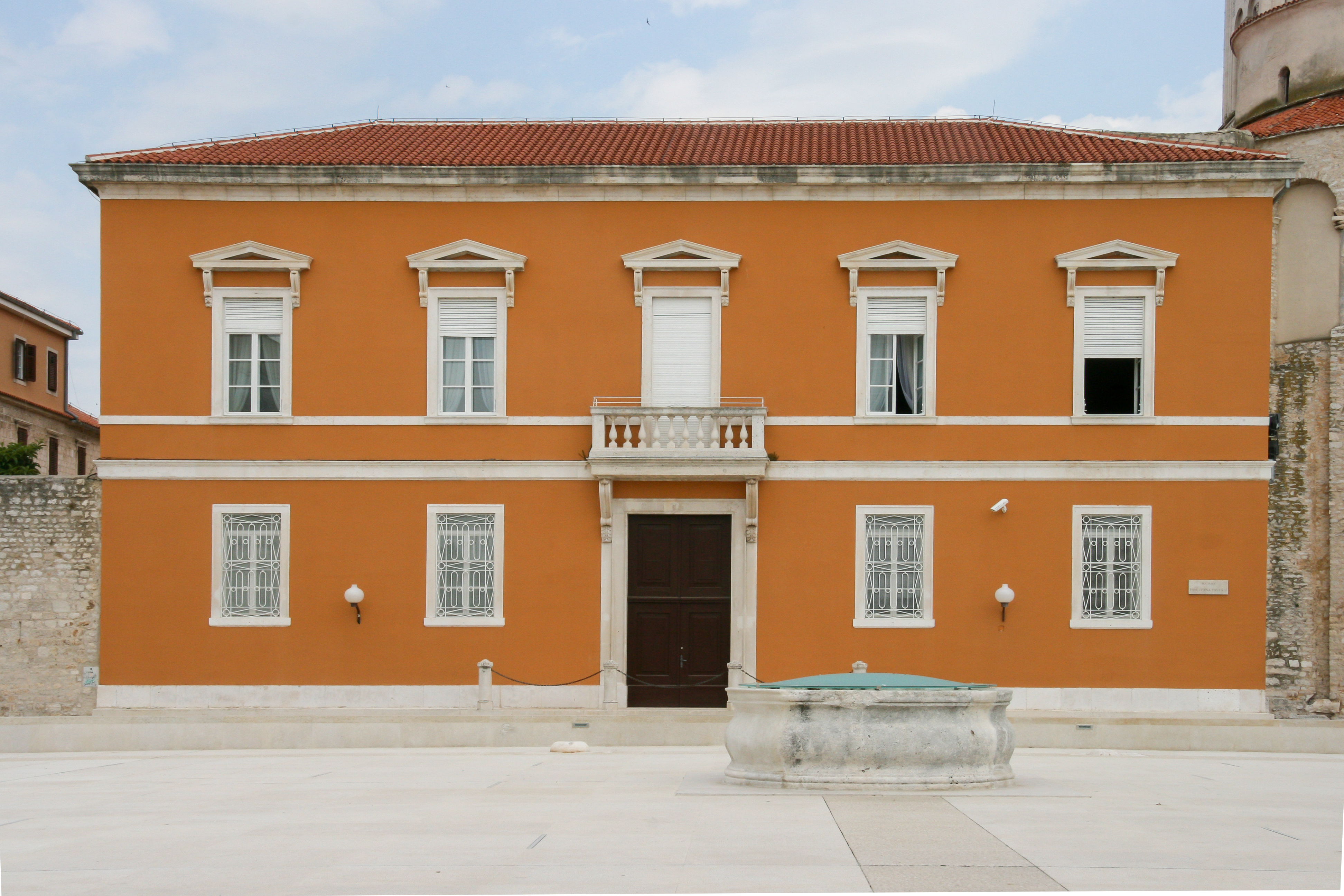 The Archbishop’s Palace in Zadar, Croatia.